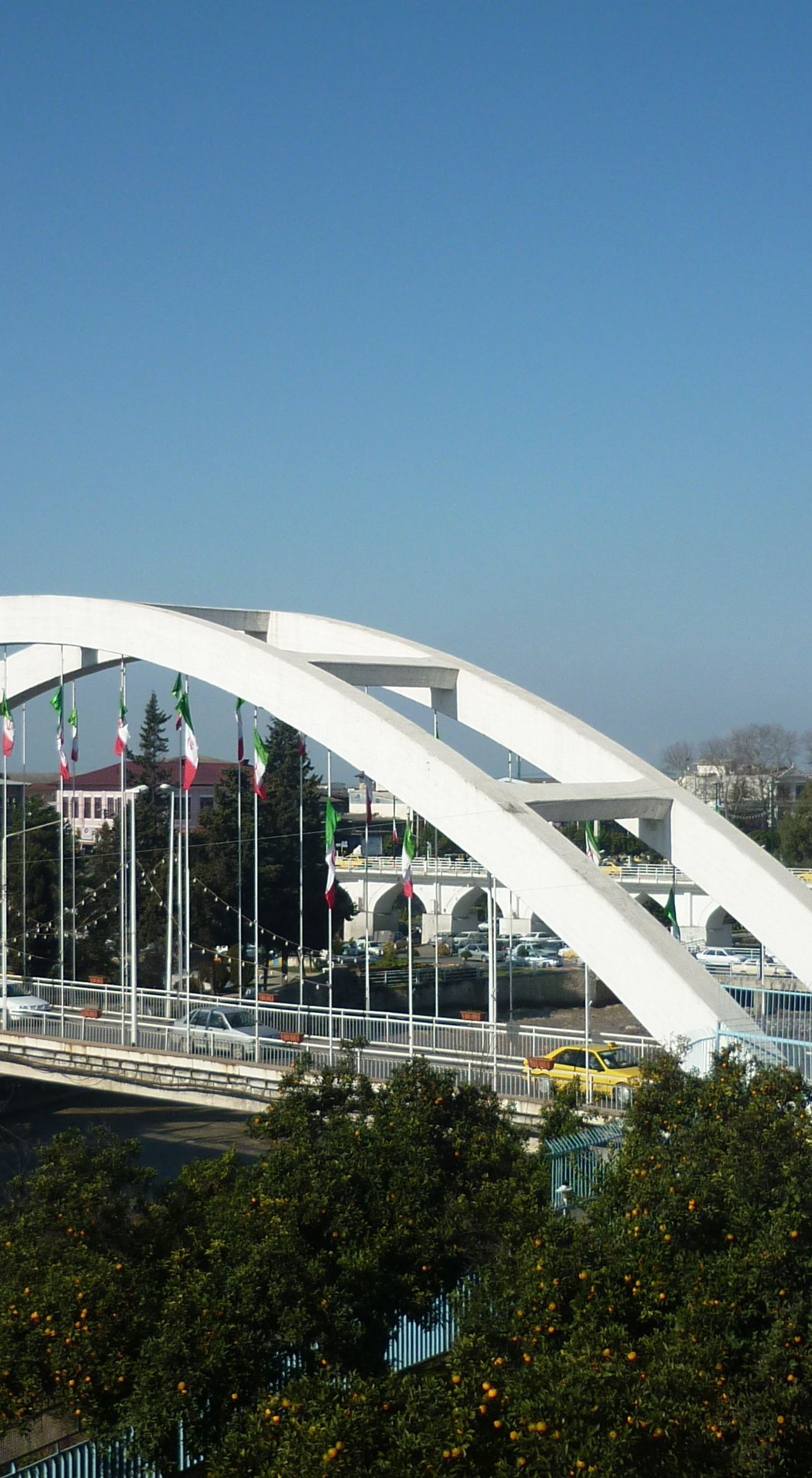 moalagh bridge